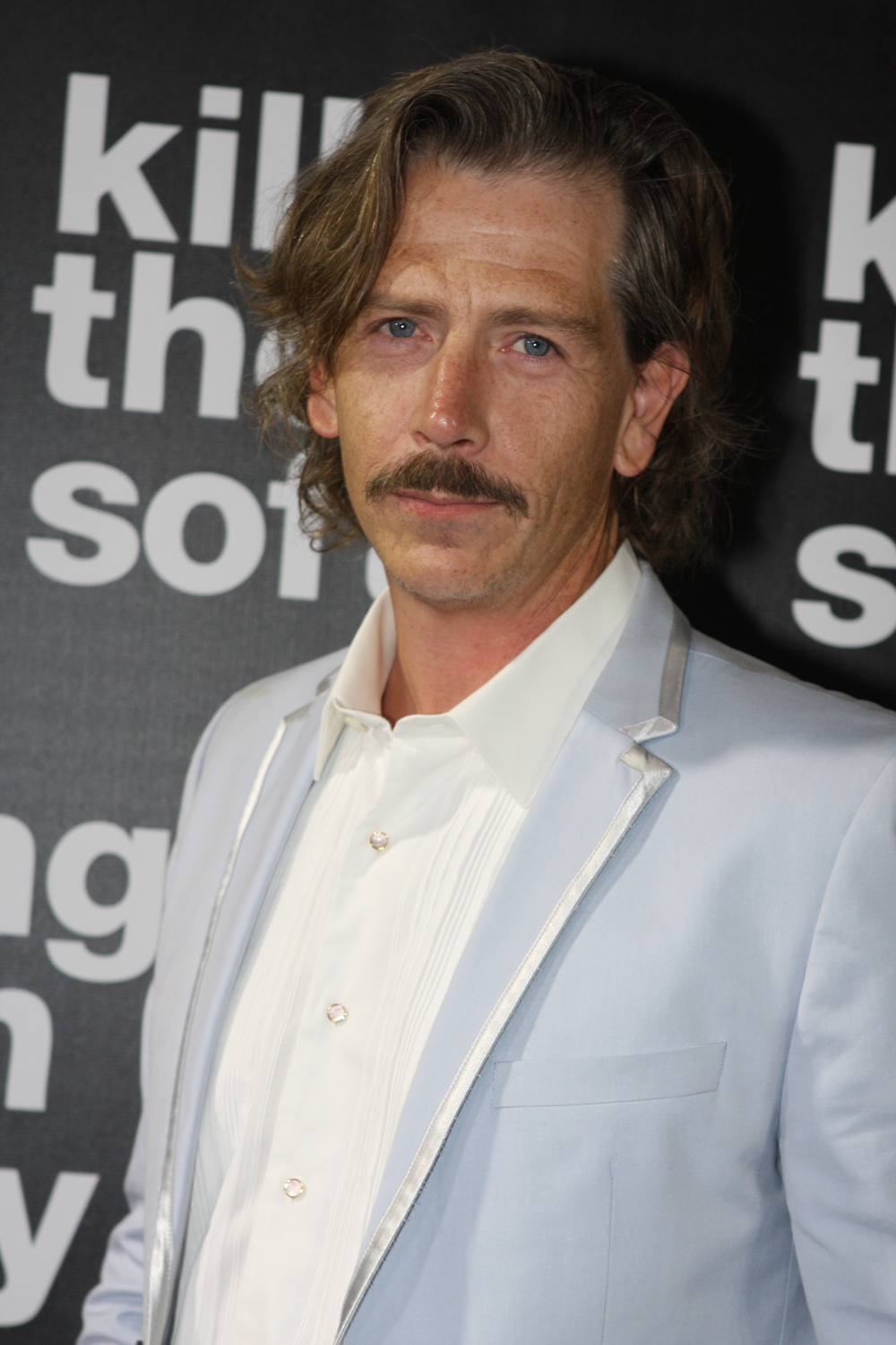 Killing Then Softly movie premiere at Dendy Opera Quays